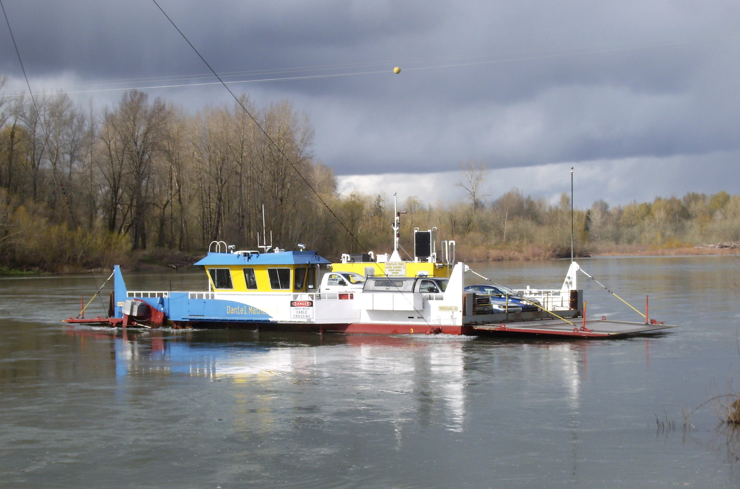 Wheatland Ferry approaches east landing at Willamette Mission State Park